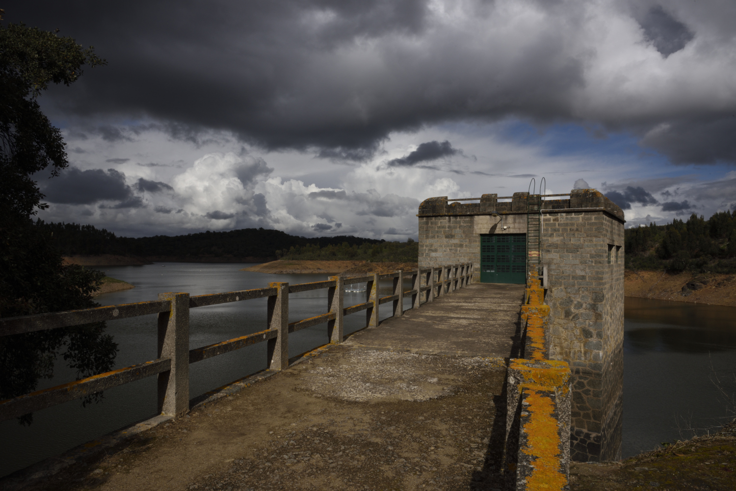 Dam tower Pego do Altar, Alentejo, Portugal